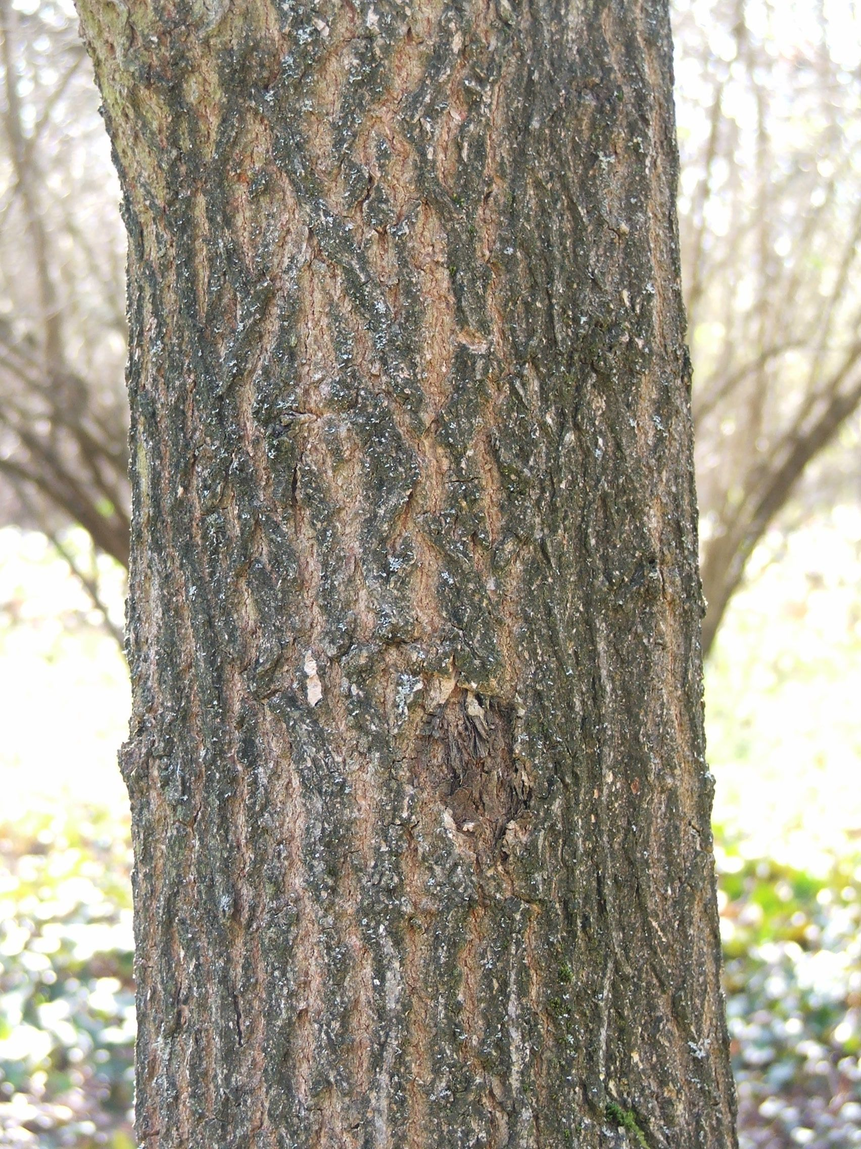 Acer truncatum - MTA Botanic Garden, Hungary